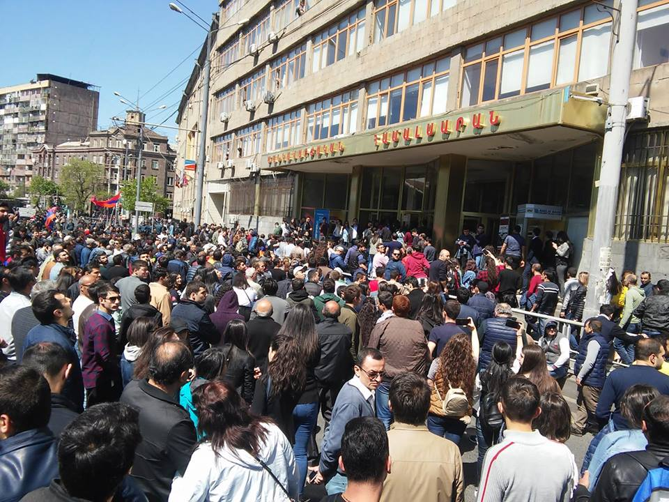 Pedagogical University